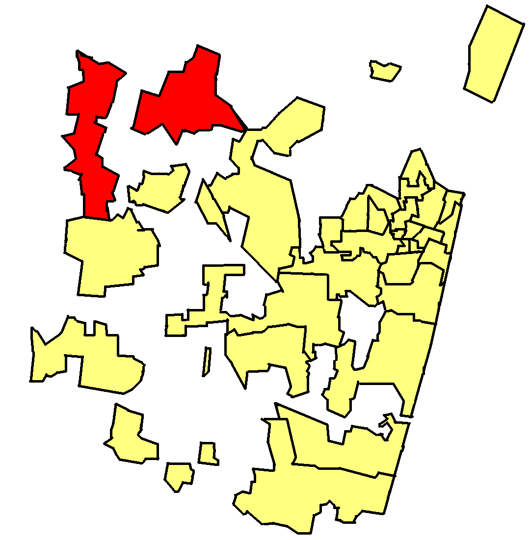 Map showing the Mannadipet constituency in Puducherry, amongst constituencies 1 to 23 (the 23 constituencies in the area around Puducherry town)